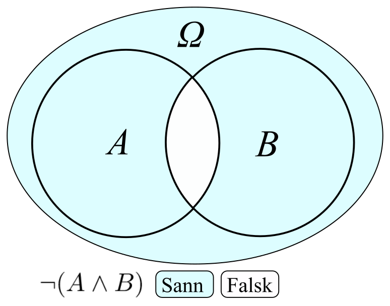 NAND, logical